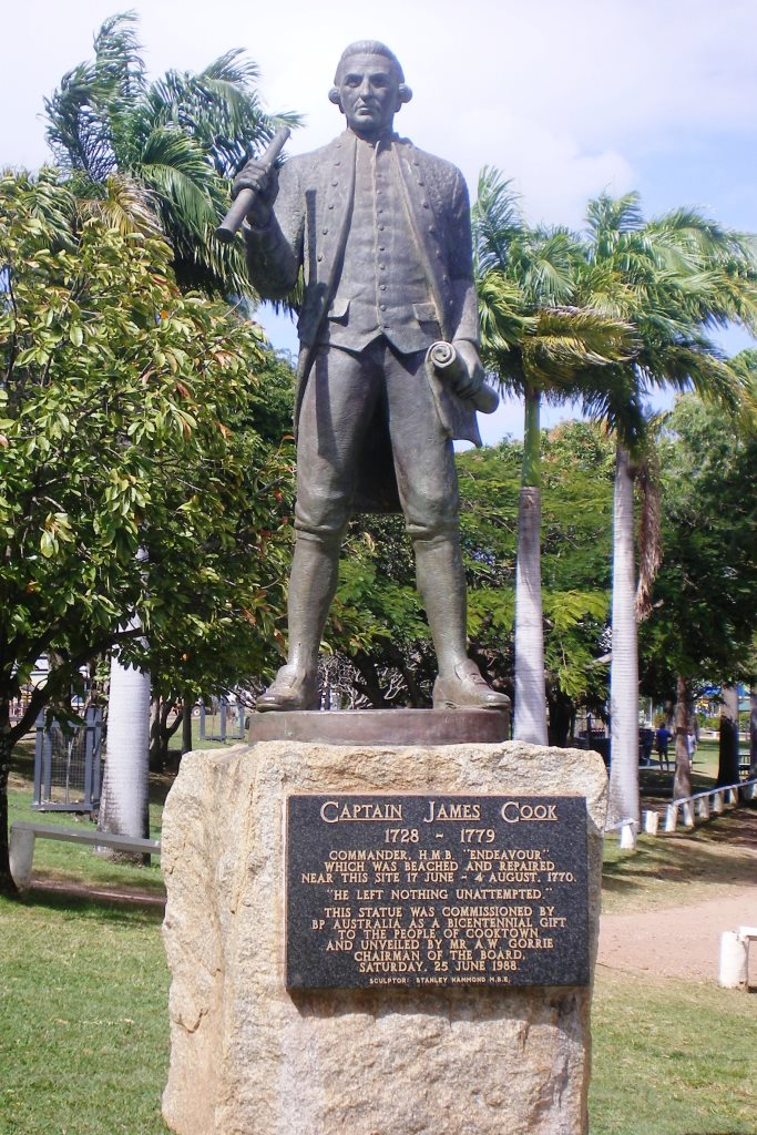 Photo taken in Cooktown in 2007